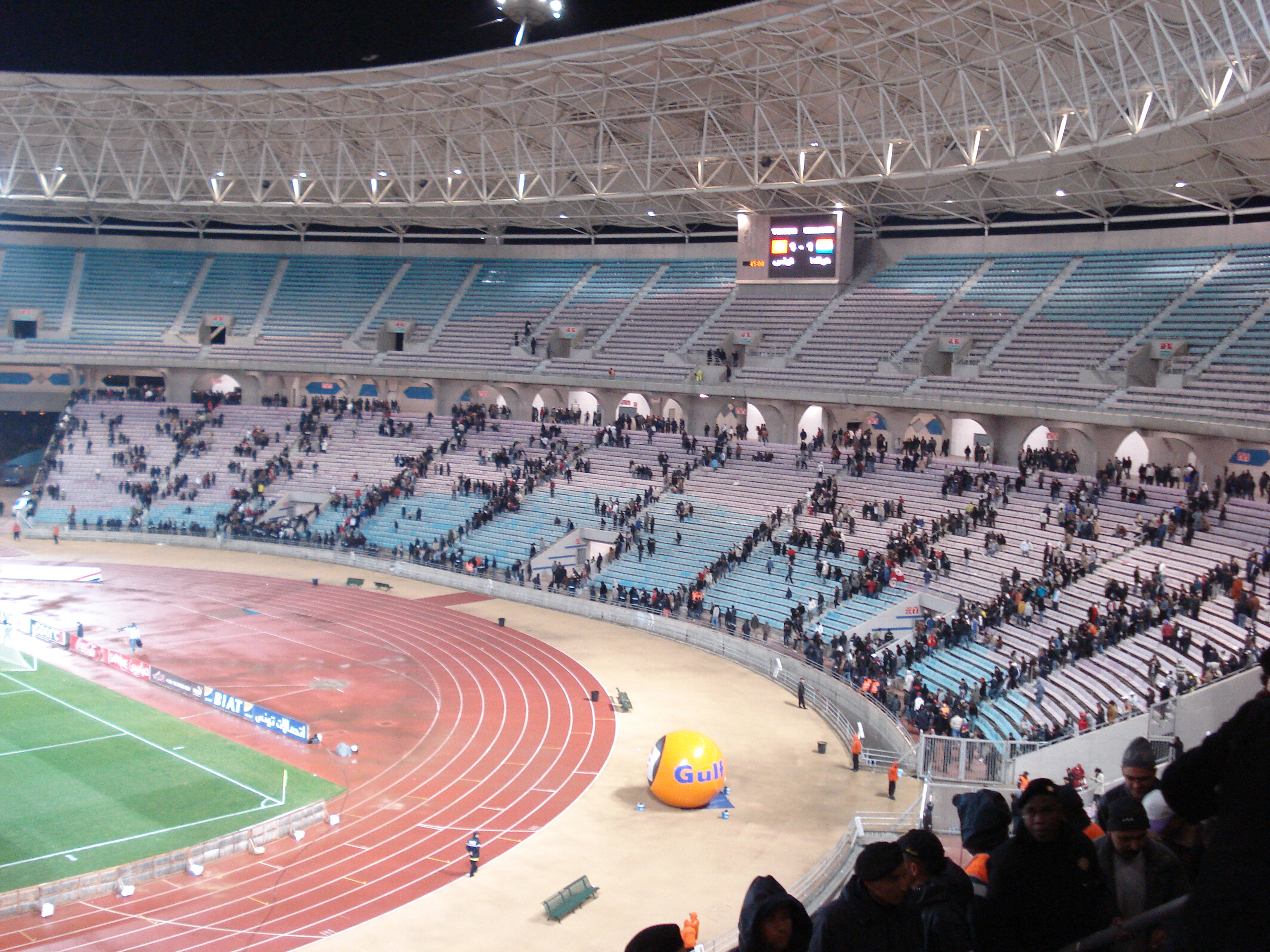 Tunisia vs Netherlands (1 - 1), Radès Stadium (supporters exiting the stadium), Tunis, Tunisia